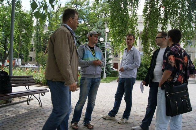 Activist of the Russian section of the International Union of anarchists in the Volgograd "Hyde Park", Volgograd